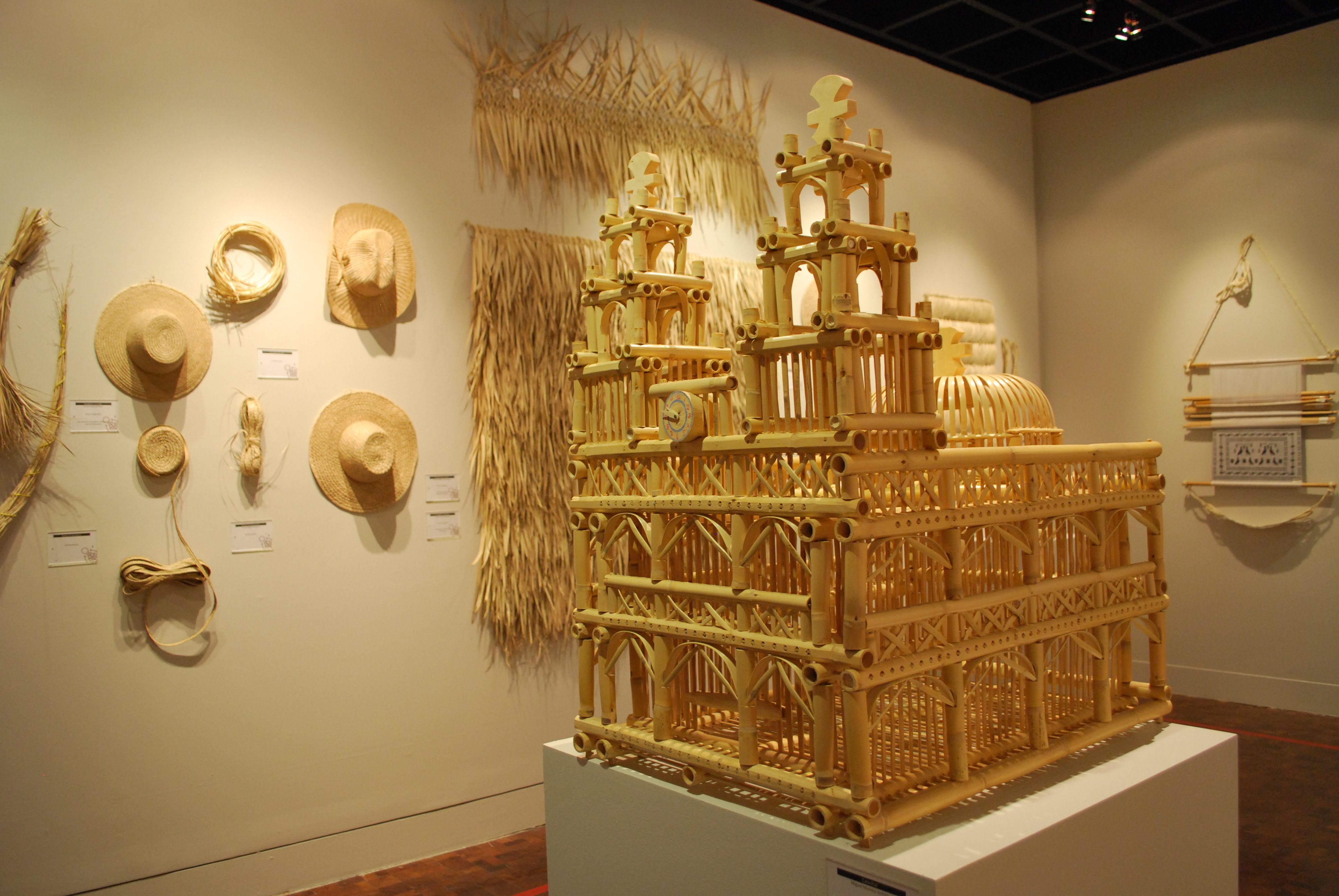 Bamboo replica of a cathedral by Miguel Moreno Jacinto at the “Hidalgo, Rituales, Usos y Creaciones” exhibit at the Museo de Arte Popular, Mexico City